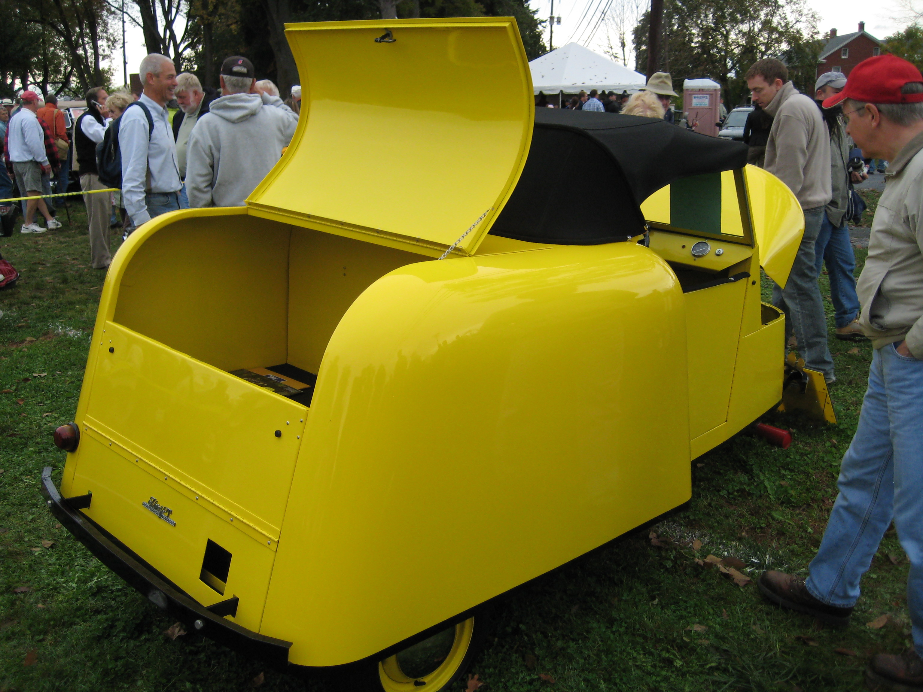 The Thrift-T was designed by the Tri-Wheel Corp of Oxford, North Carolina. (USA) and was manufactured by the Tri-Wheel Motor Corp, Springfield, Mass. (USA) from 1948. The original vehicle was designed as a three seater for commuting though by 1955 the Thrift-T was also available with a pick up body, an enclosed delivery van and an open top utility vehicle that could seat up to five people with additional room for luggage. powered by an Onan twin engine and has a Crosley drivetrain with a 3 or 4 speed gearbox. The body is made from steel. Seen at the judged car show, AACA Eastern Region Fall Meet, Hershey, Pennsylvania, October 2009